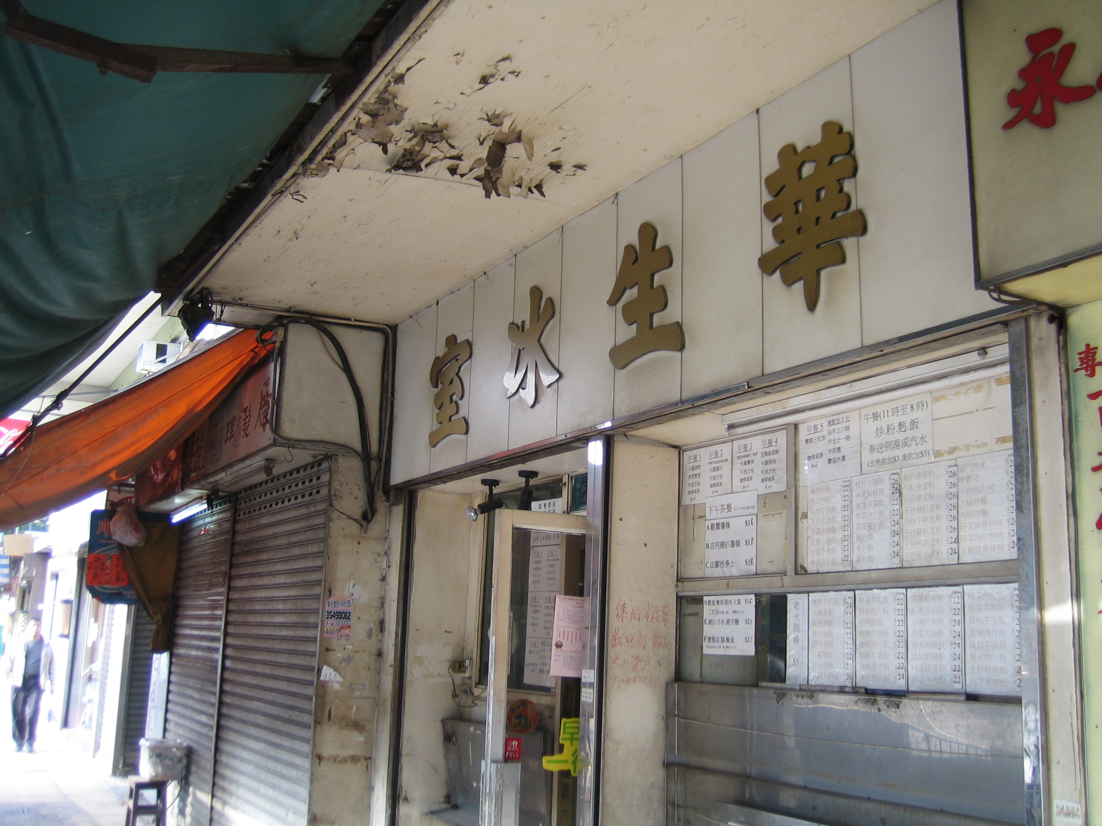 This is Wah Sang Restaurant「華生冰室」which is taken from Kai Tak Mansion, Kwun Tong Road, Hong Kong. If you have any questions about the licensing (like cc-by-sa, GFDL), or you want to republish the image without using the licensing shown as below, you are welcome to leave a message on the User Talk Page of my Chinese Wikipedia account. 中文（香港）: 這是位於香港九龍觀塘道啓德大廈的「華生冰室」。如你對這照片版權許可協議 (例cc-by-sa, GFDL) 有疑問，或你想把照片不用以下的版權協議轉載，歡迎你到我在中文維基百科的用戶對話頁留言。